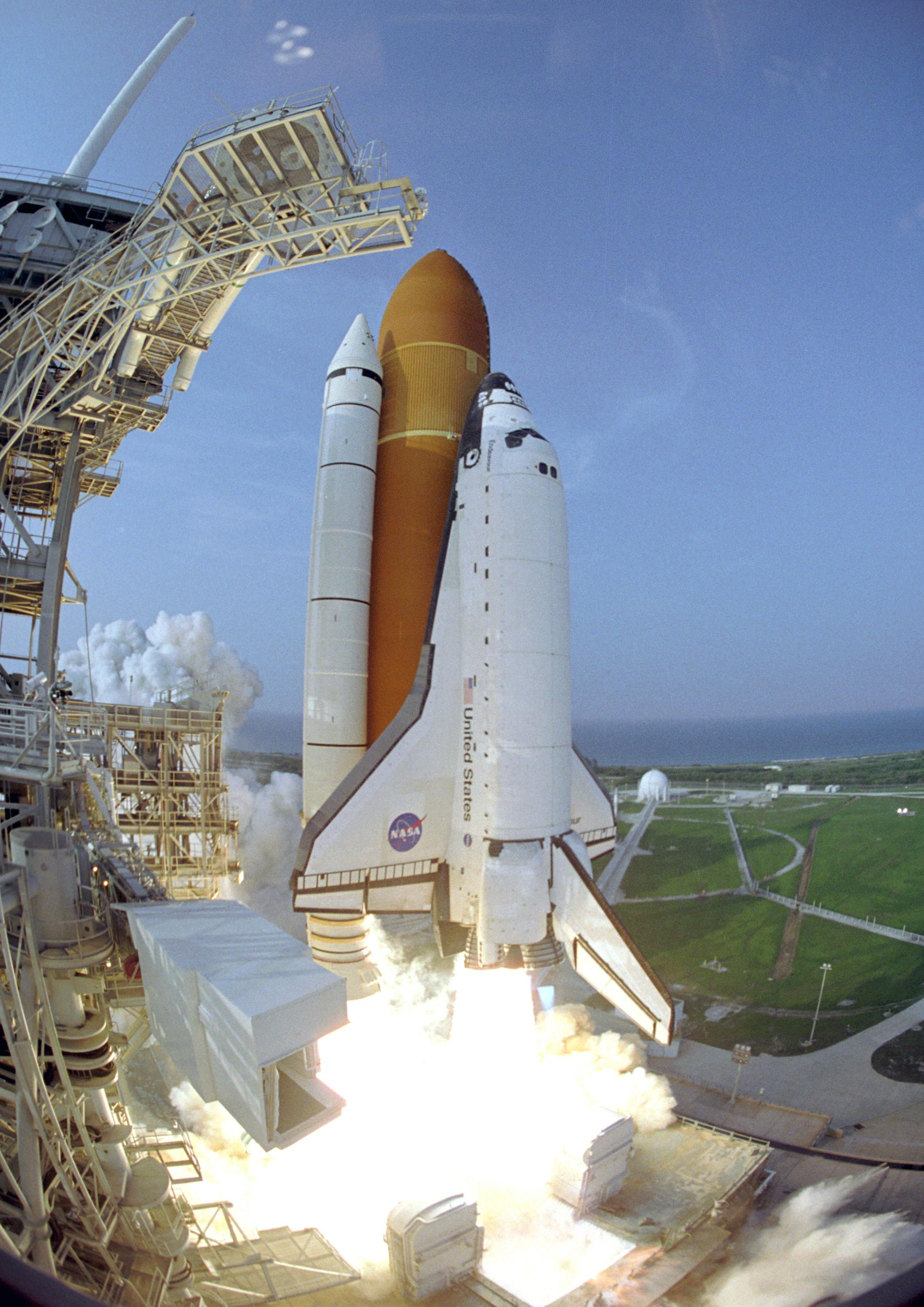 KENNEDY SPACE CENTER, FLA. -- A camera on the 210-foot level of the fixed service structure captures a fish-eye view of Space Shuttle Endeavour as it lifts off from Launch Pad 39A on mission STS-118. Water floods the mobile launcher platform surface for sound suppression and causes some of the billows of clouds seen behind the shuttle. On the horizon is the Atlantic Ocean. The 22nd shuttle flight to the International Space Station, the mission will continue space station construction by delivering a third starboard truss segment, S5, and other payloads such as the SPACEHAB module and the external stowage platform 3. Liftoff of Endeavour was on time at 6:36 p.m. EDT.